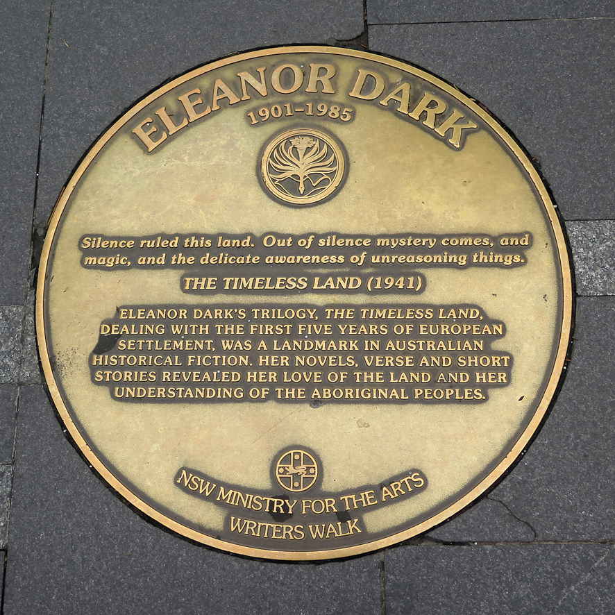 A plaque in the Sydney Writers Walk series at Circular Quay